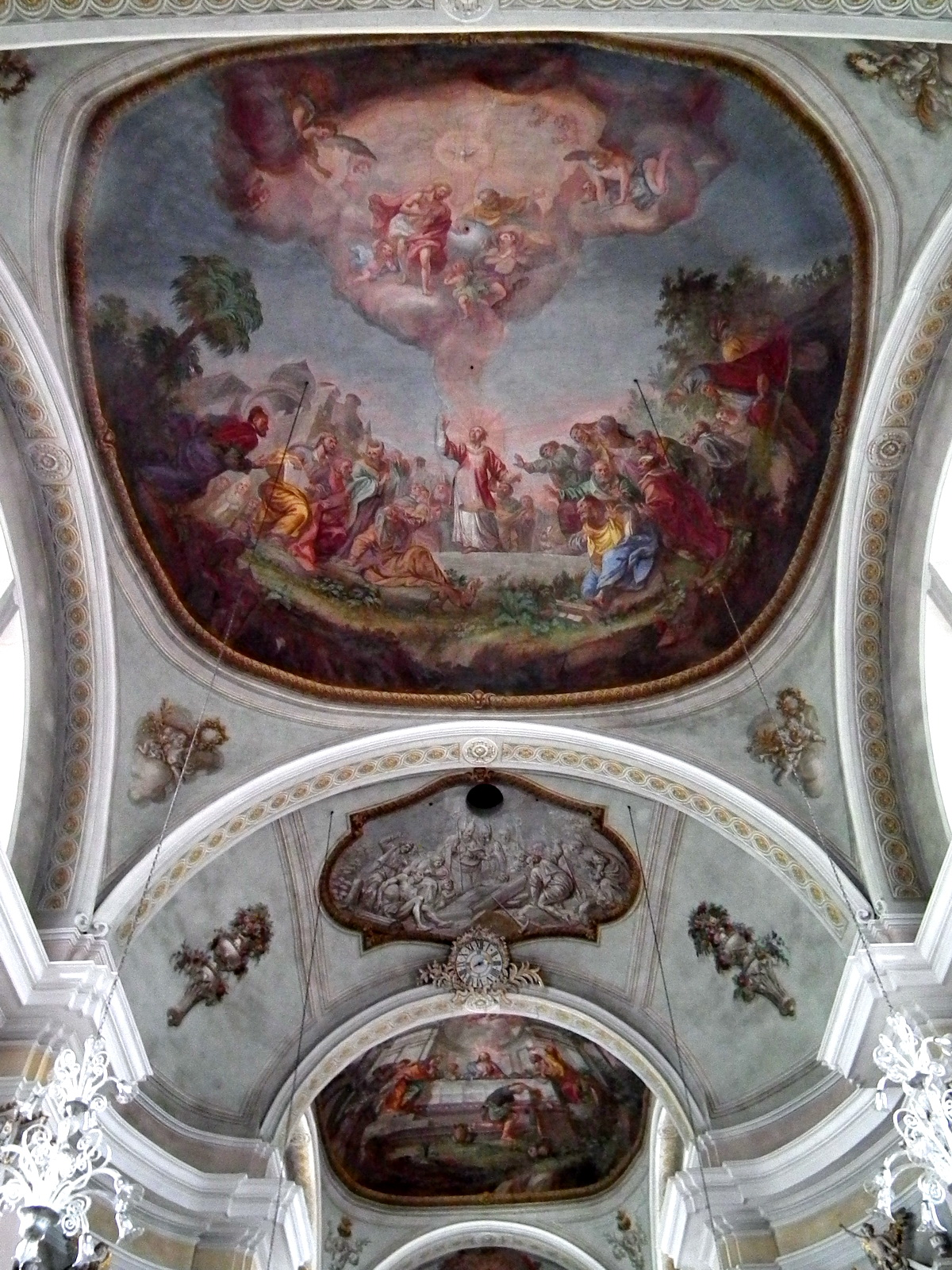 Church of Saint Stephen Native nameSt. Stephan/Chiesa di Santo StefanoLocationNiederdorf, South Tyrol, ItalyCoordinates46° 44′ 22″ N, 12° 10′ 11″ E